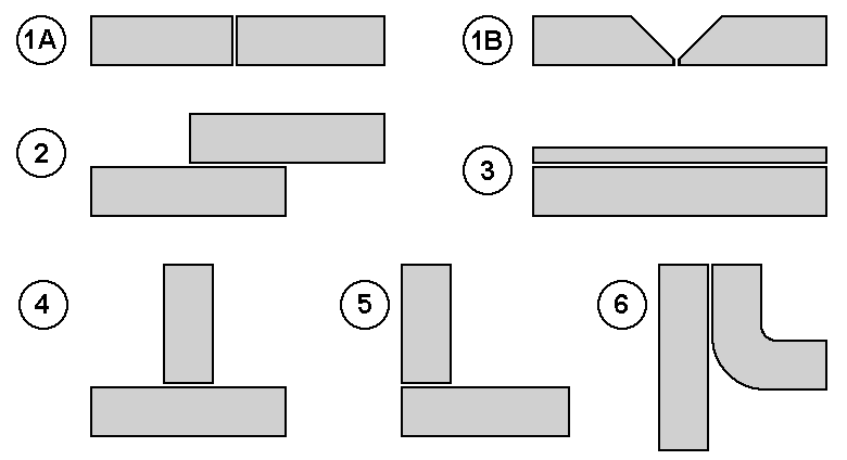 Welding type joints. (modification on Common joint types.png but I didn't replace it because of different numbering.)